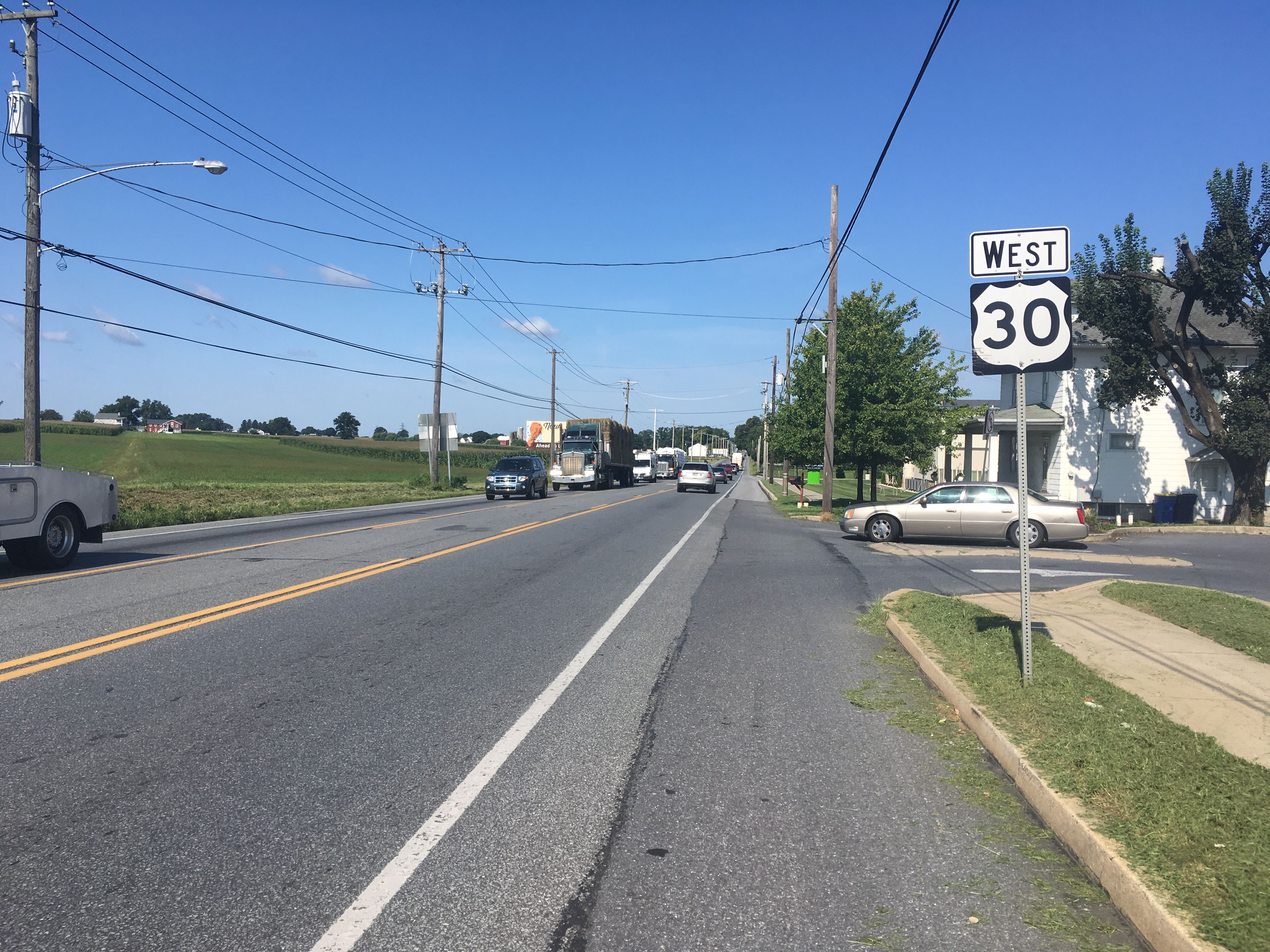 Westbound U.S. Route 30 (Lincoln Highway) past the intersection with Ronks Road in East Lampeter Township, Pennsylvania